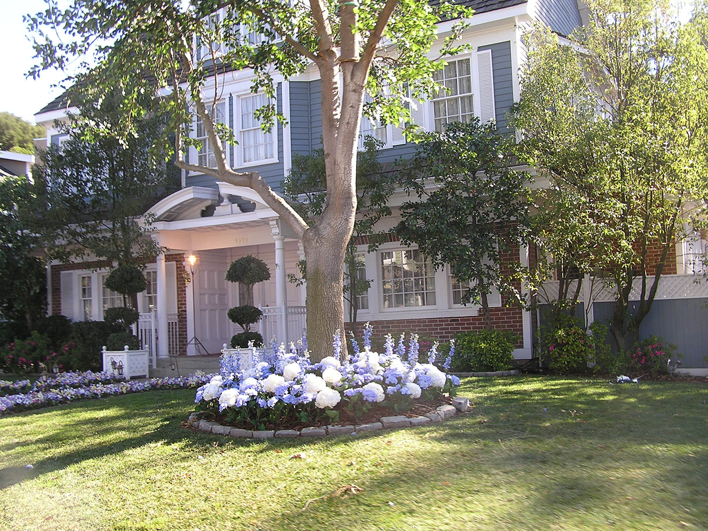 Photo representing the "Klopeck House", featured in the TV series Providence and in the movie The 'Burbs. In Desperate Housewives, the house is located on 4354 Wisteria Lane and occupied by Bree Van de Kamp (Marcia Cross) and her family since the beginning of the show.